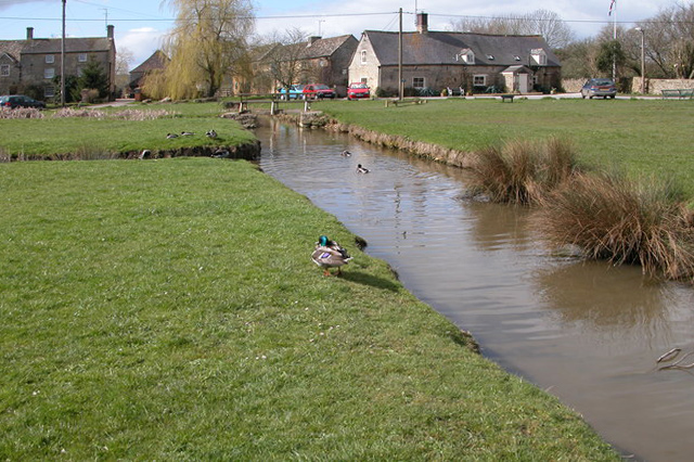 Bledington village green in Gloucestershire, England